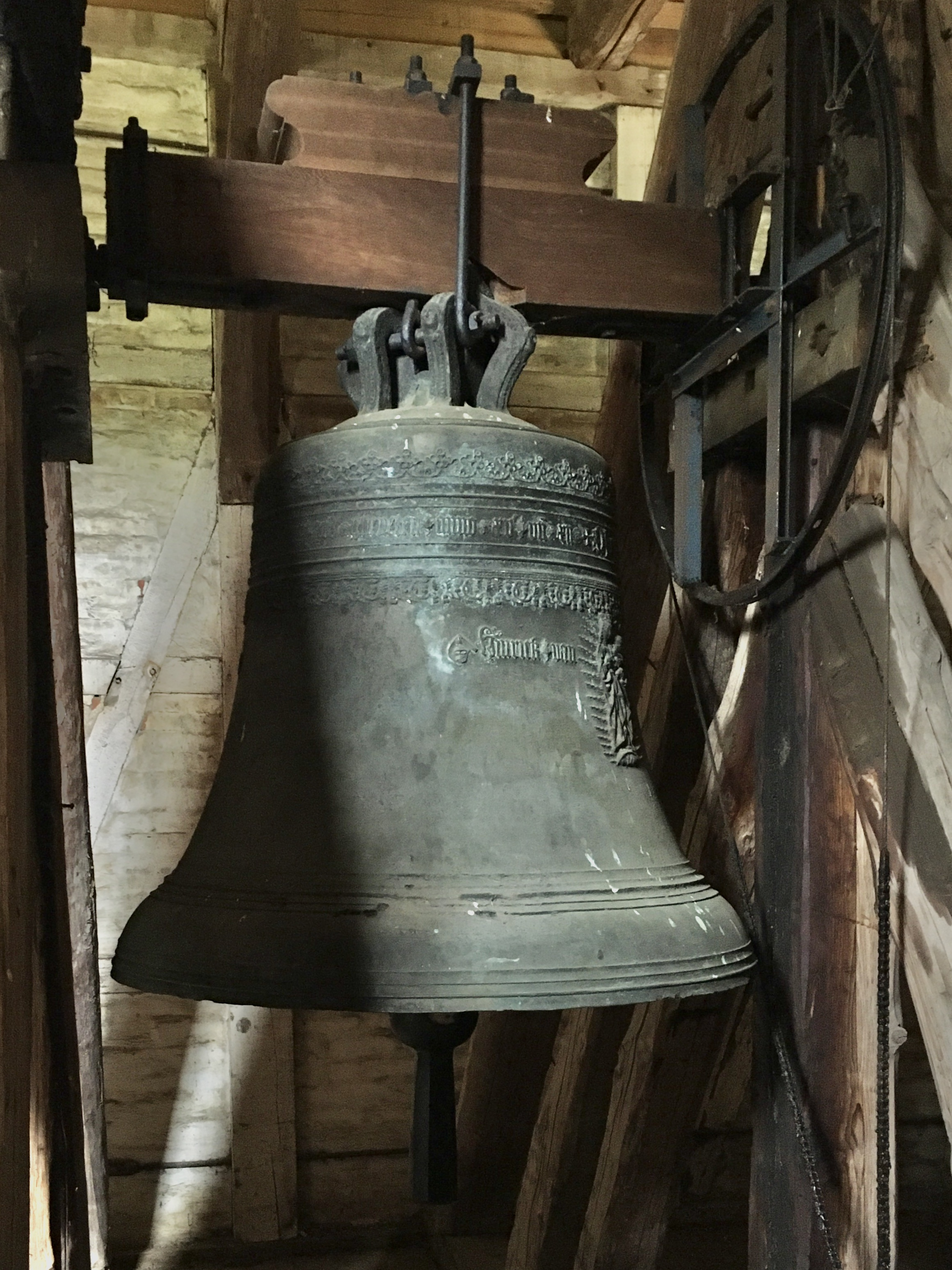 Bell of the St. George's Church (Wichmannsburg). Contains a relief of the Virgin Mary with Jesus.